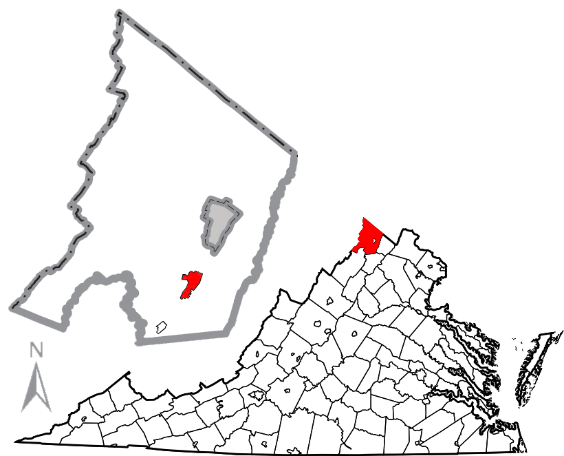 Combination map of Virginia showing Frederick County, originally created by David Benbennick with a map of Frederick County and the town of Stephens City highlighted in red, created by User:JonRidinger. The gray are in the middle of the Frederick County map is the independent city of Winchester.